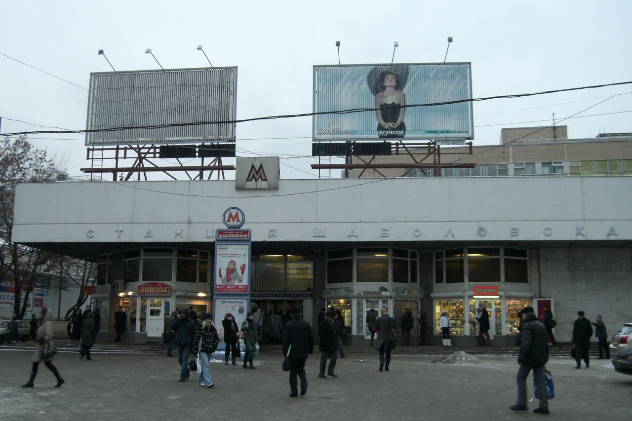 Shabolovskaya Metro station (Moscow Metro) vestibule